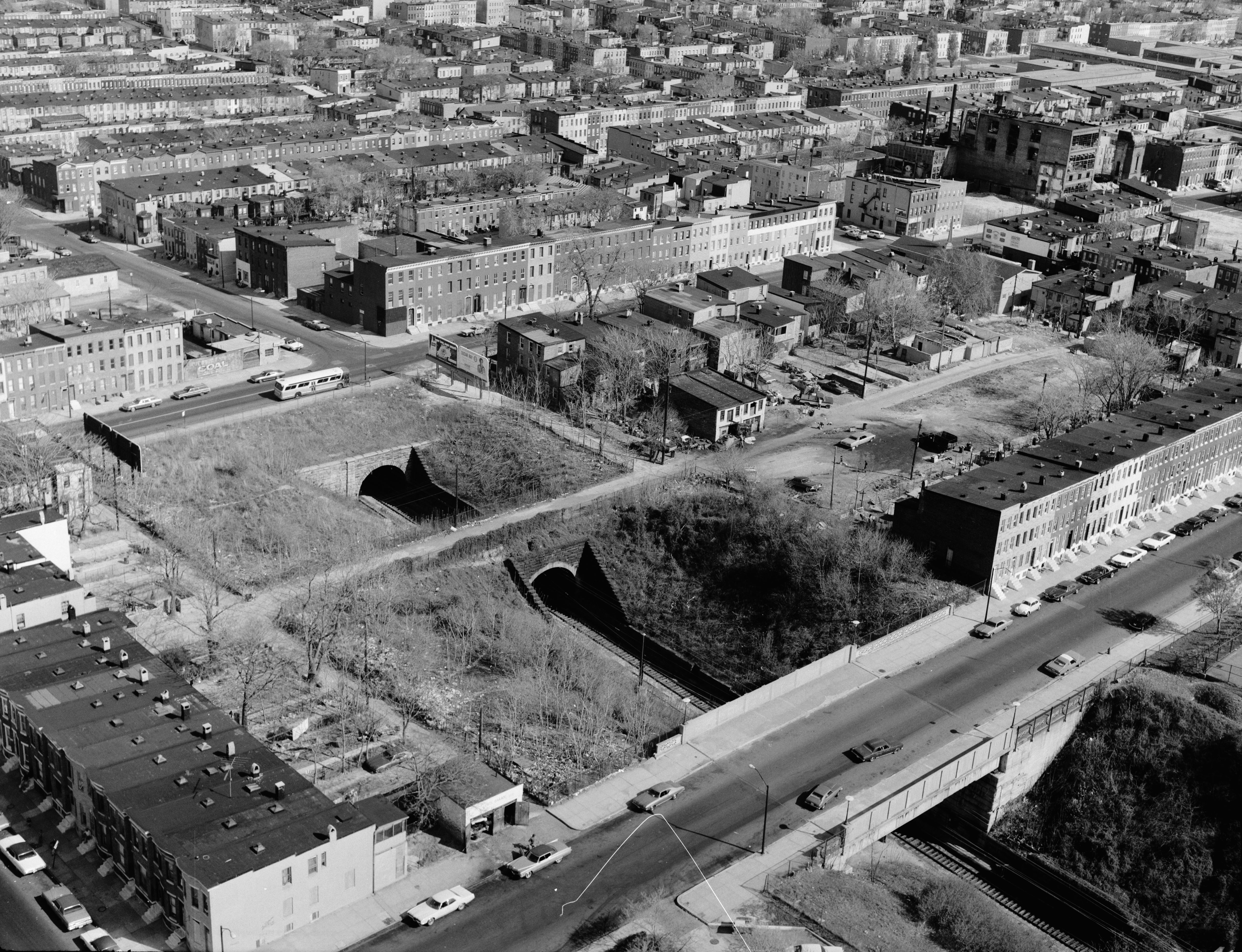 Aerial view of west portal of Baltimore and Potomac Tunnel, Baltimore, Maryland